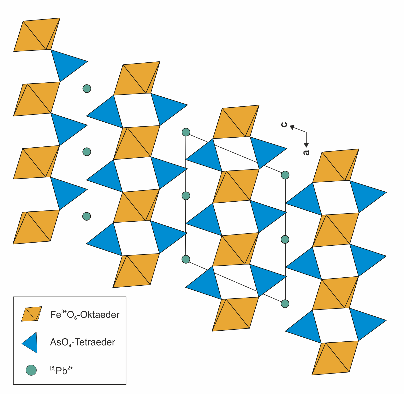 Simplified illustration of the structure of mawbyite down [010]. Reference: Kharisun et al., Mineralogical Magazine, 1997, vol. 61, pp. 685–691.